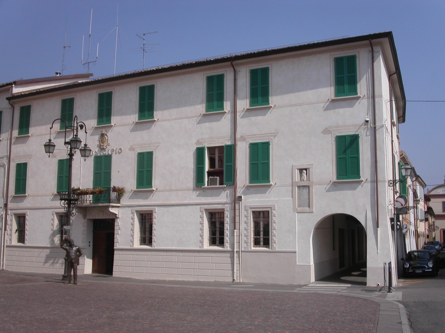 City Hall of Brescello with the sculpture of Peppone